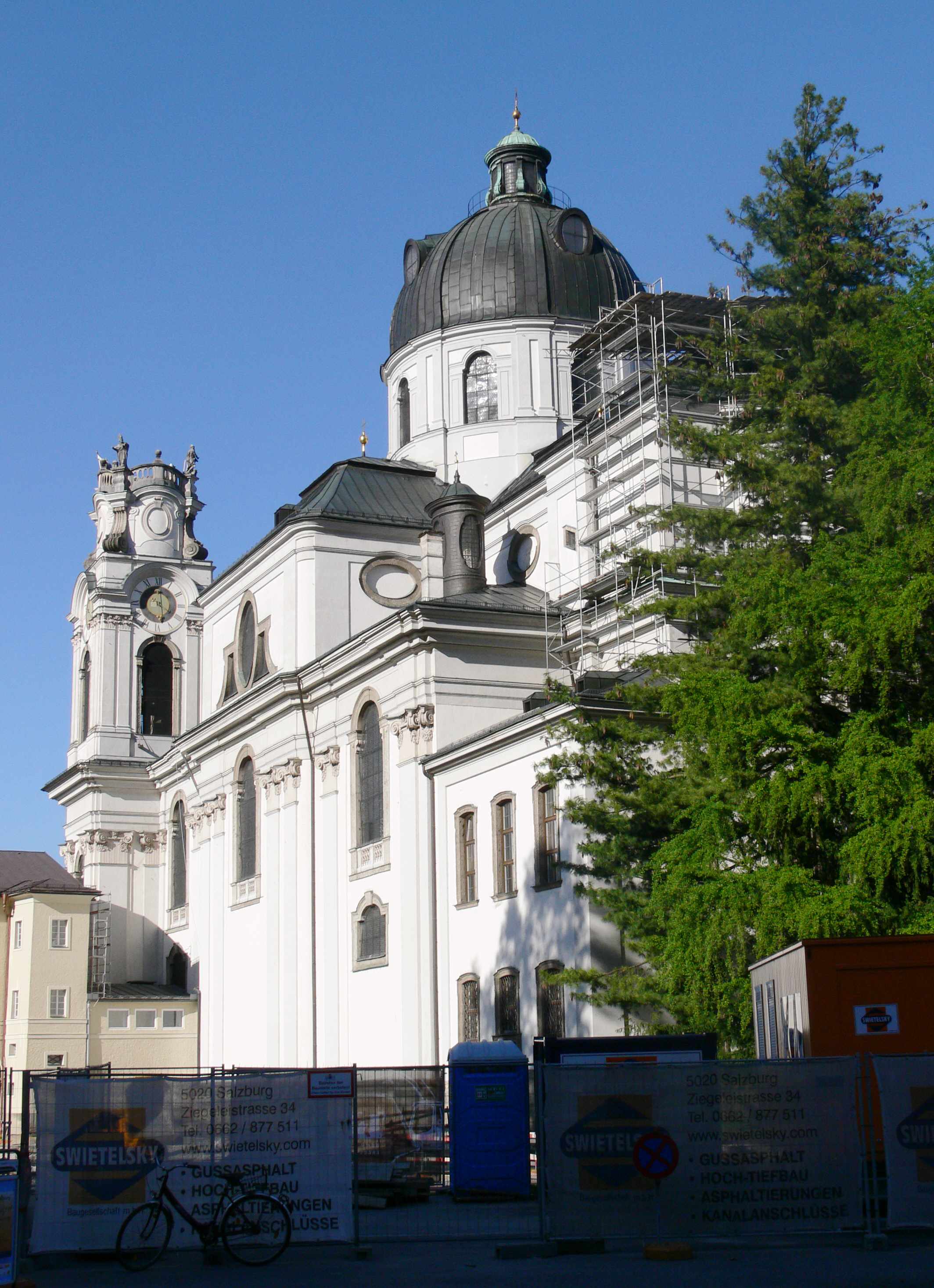 Austria, Salzburg, Kollegienkirche